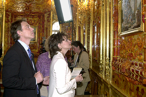 Pushkin (Russia), Catherine Palace, British Prime Minister Tony Blair and his wife, Cherie, in the Amber Room.